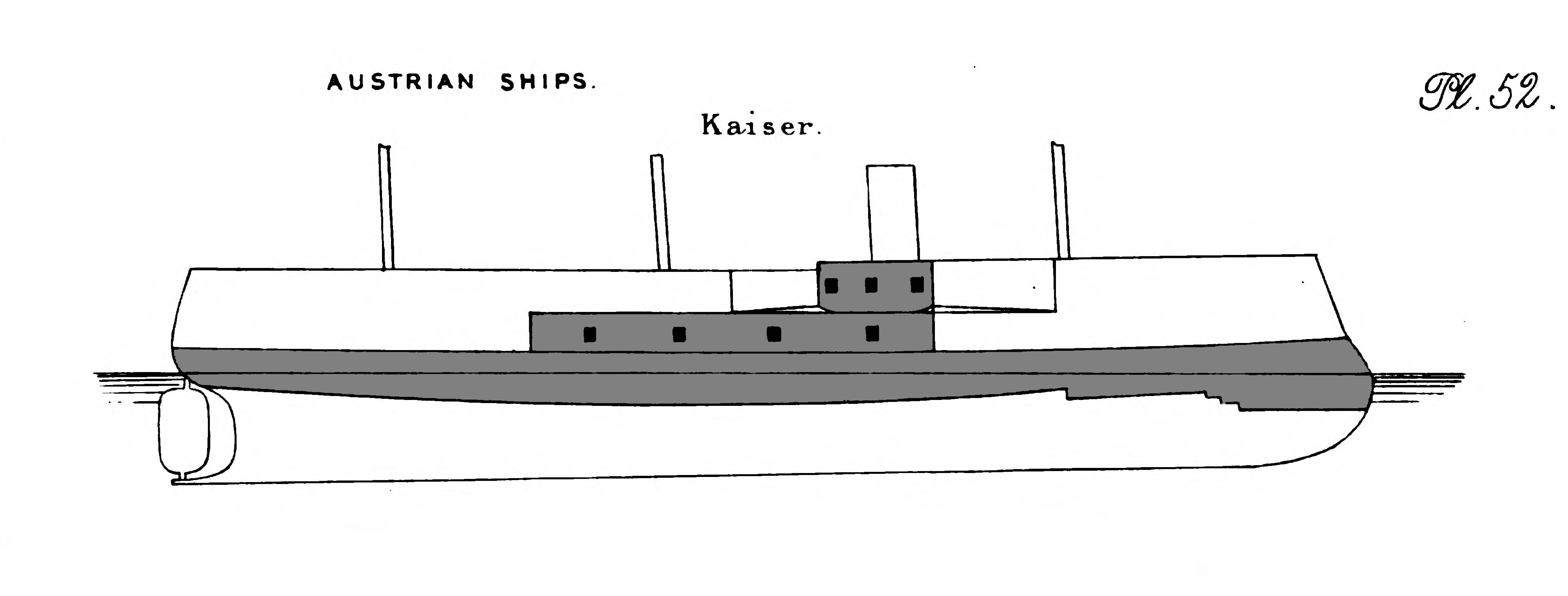 Line drawing of the Austria-Hungarian ironclad Kaiser after its 1869-1873 conversion from ship of the line. The grey areas are added to the original drawing to show the extent of the armour.